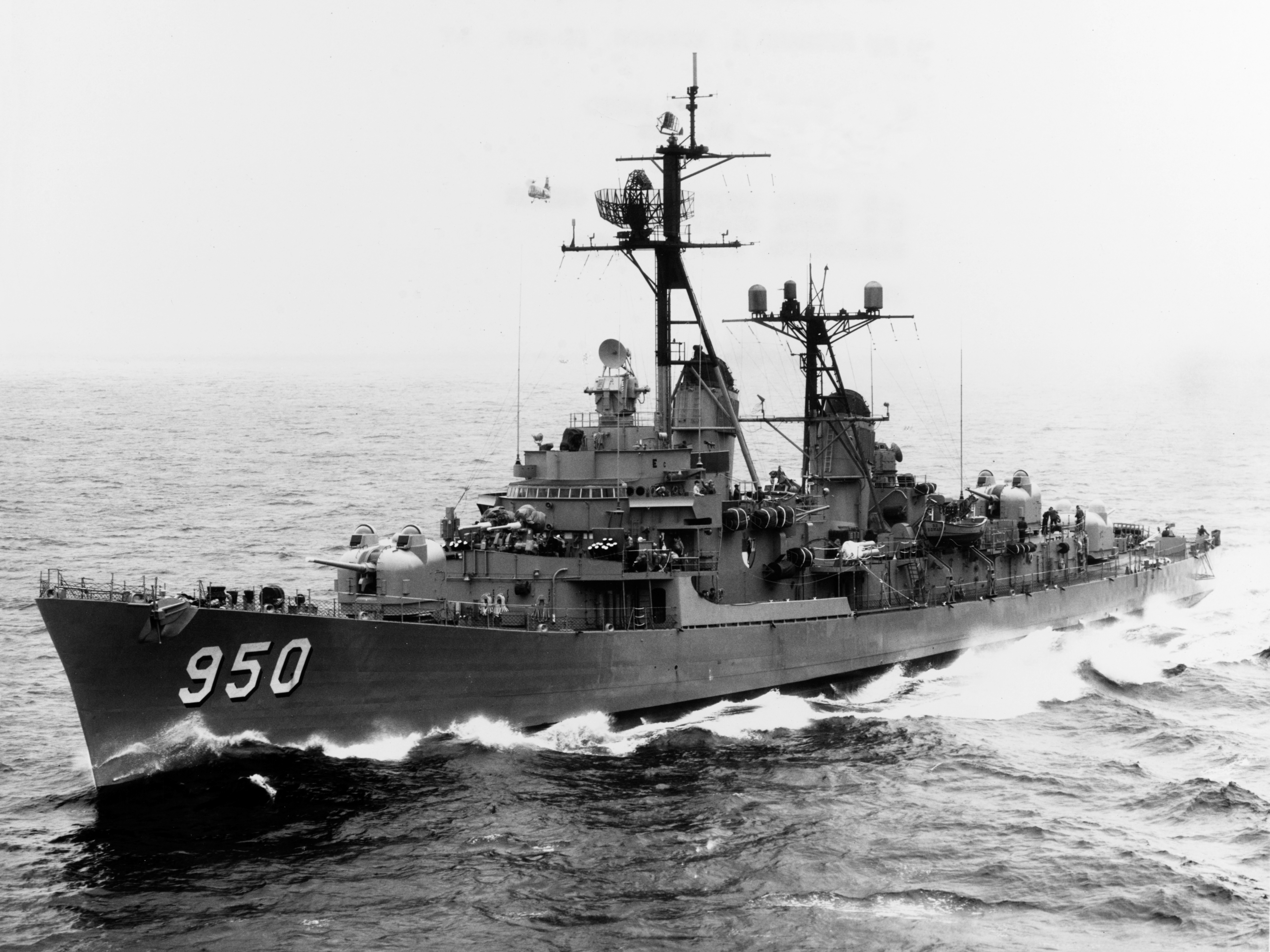 The U.S. Navy destroyer USS Richard S. Edwards (DD-950) underway in the Pacific Ocean on 21 October 1962. Note the Piasecki UH-25 Retriever helicopter in the background.